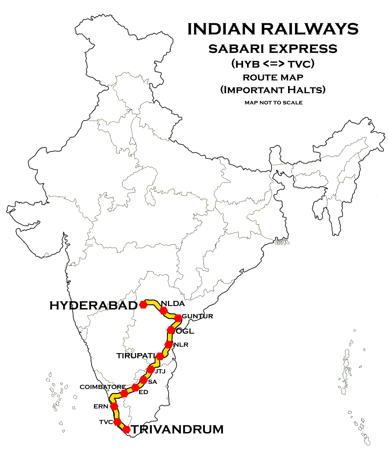 Sabari Express (HYB - TVC) Route map